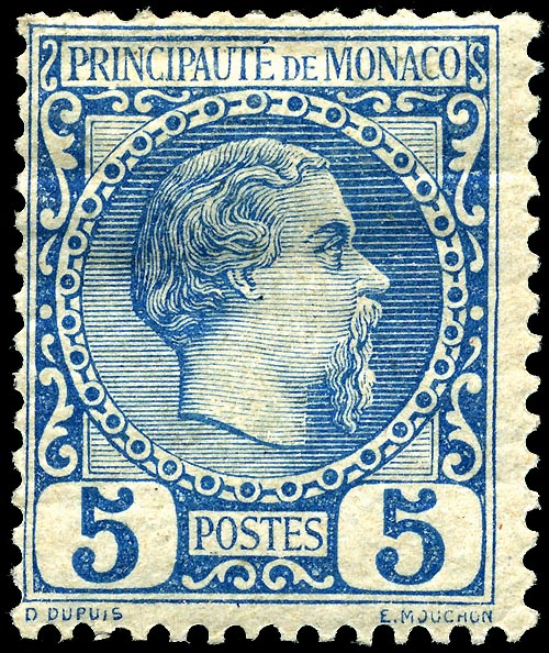 Monaco 5c stamp of 1885 representing Prince Charles III